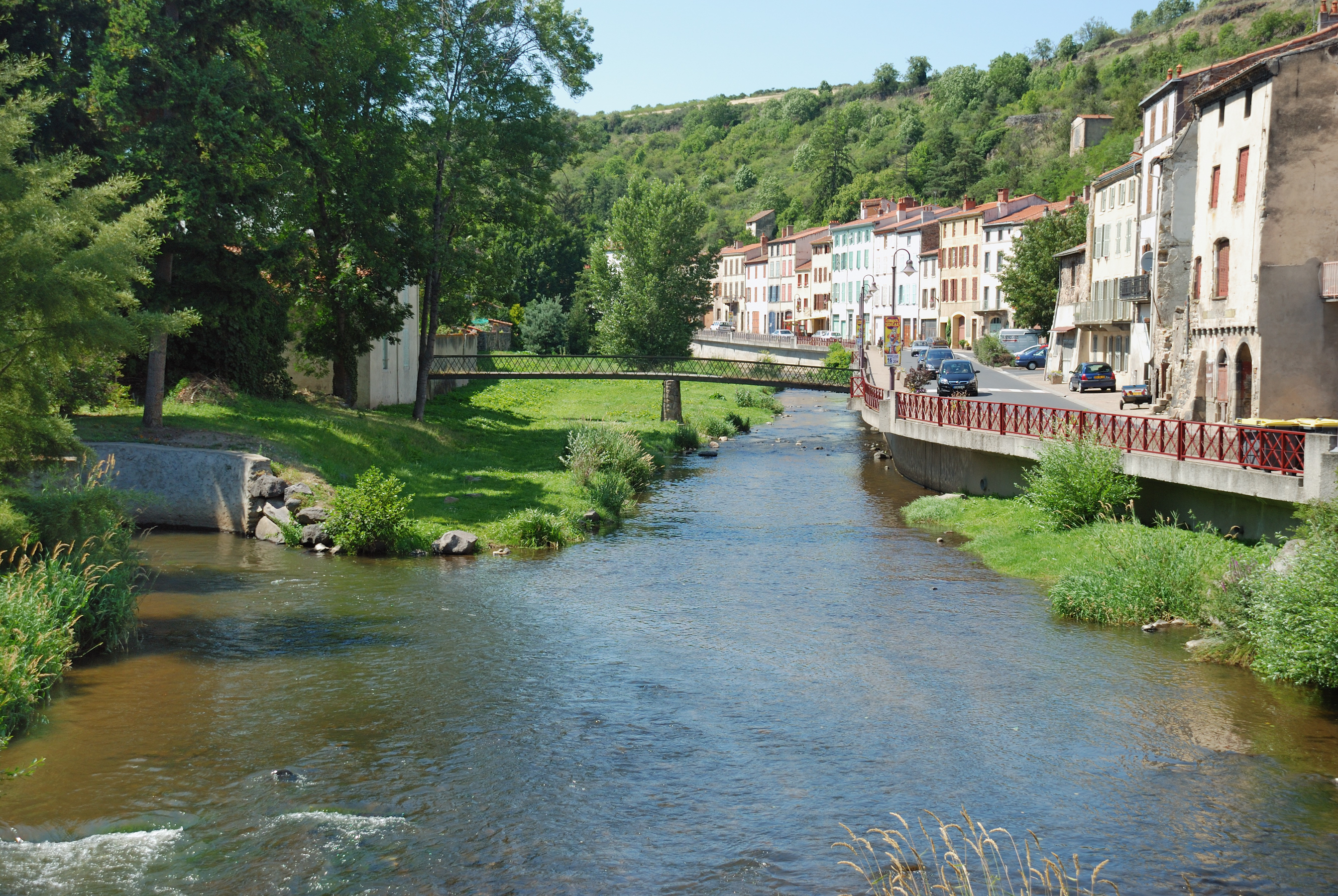 The Couze Chambon river in Champeix, (Puy-de-Dôme, France. Translations in other languages are welcome.